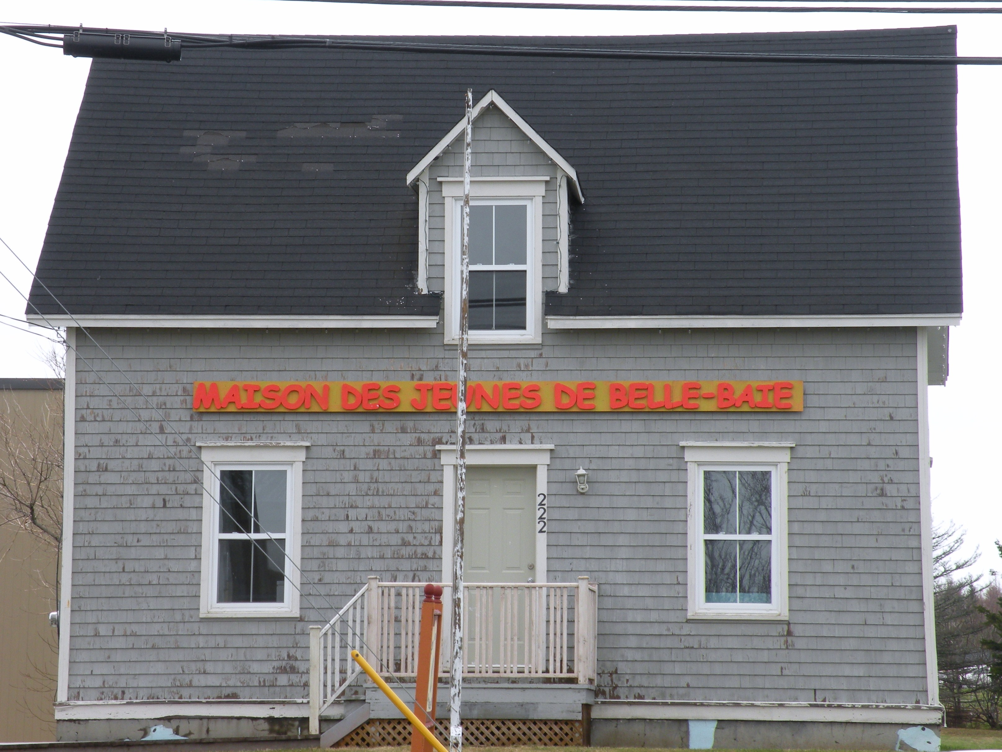 A building in Caraquet, New Brunswick, used in the tv serie Belle-Baie.